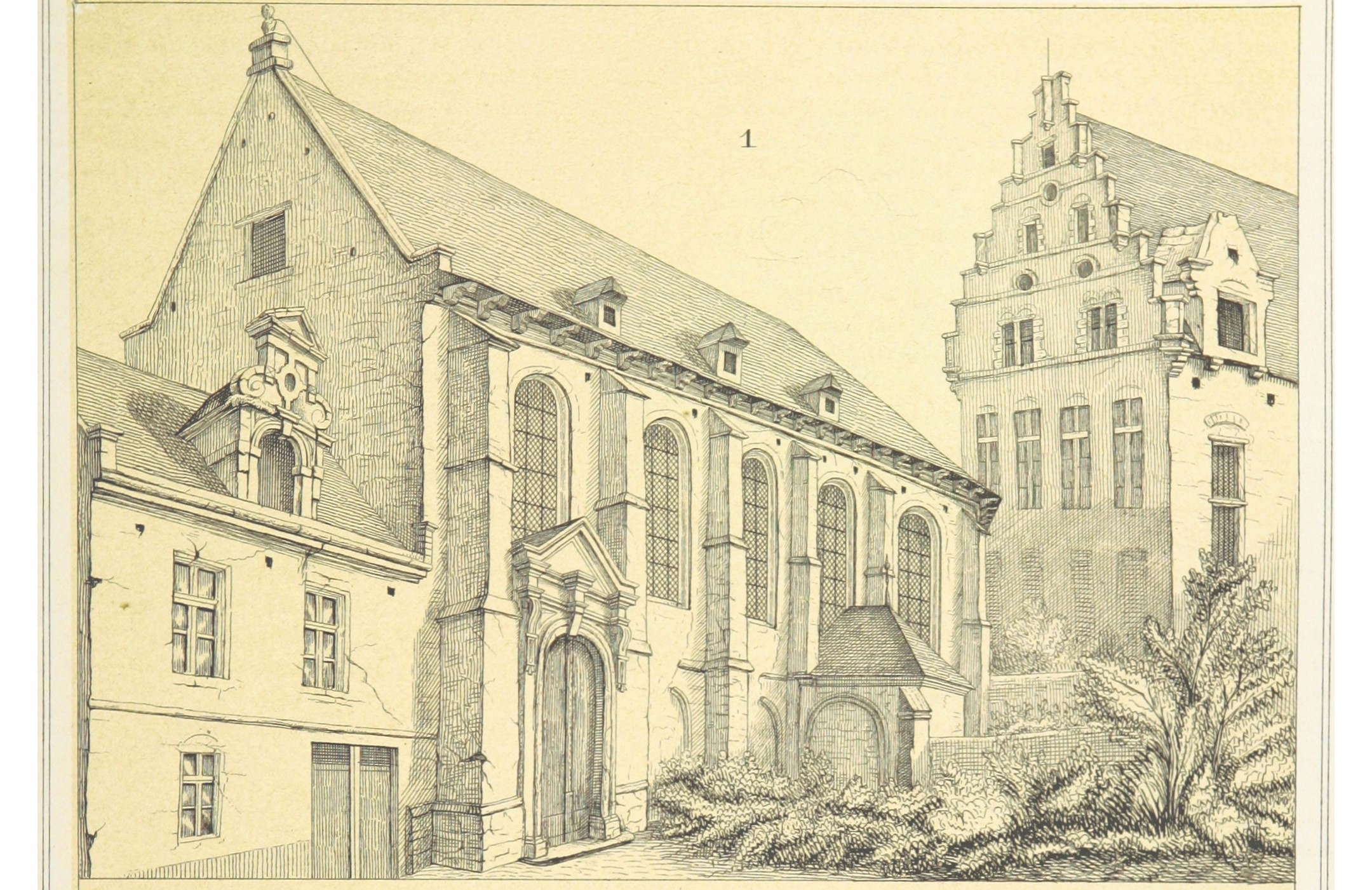 Former monastery of Wittevrouwen in the Belgian town of Leuven; illustration by Edward Van Even (1860)